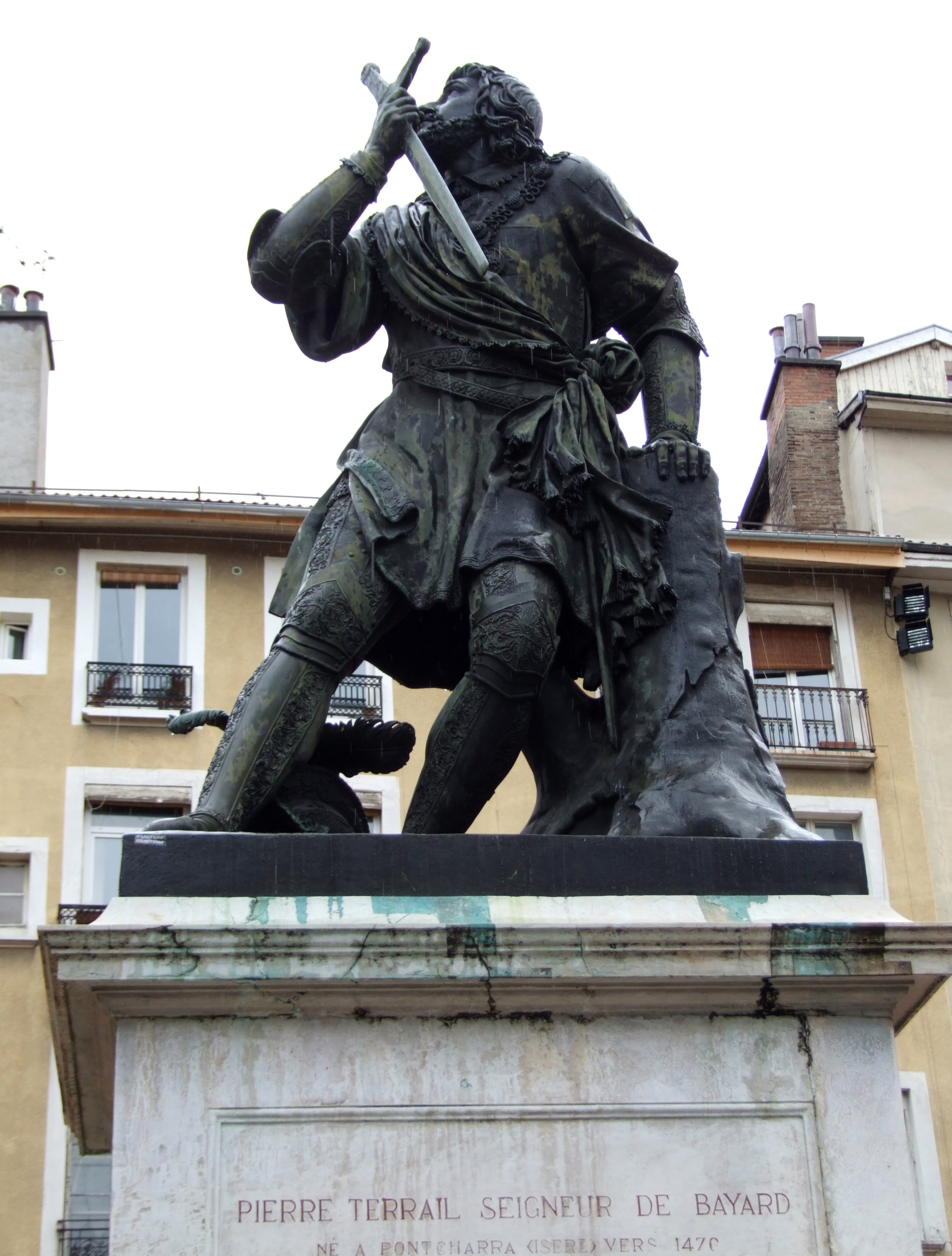 Grenoble, France